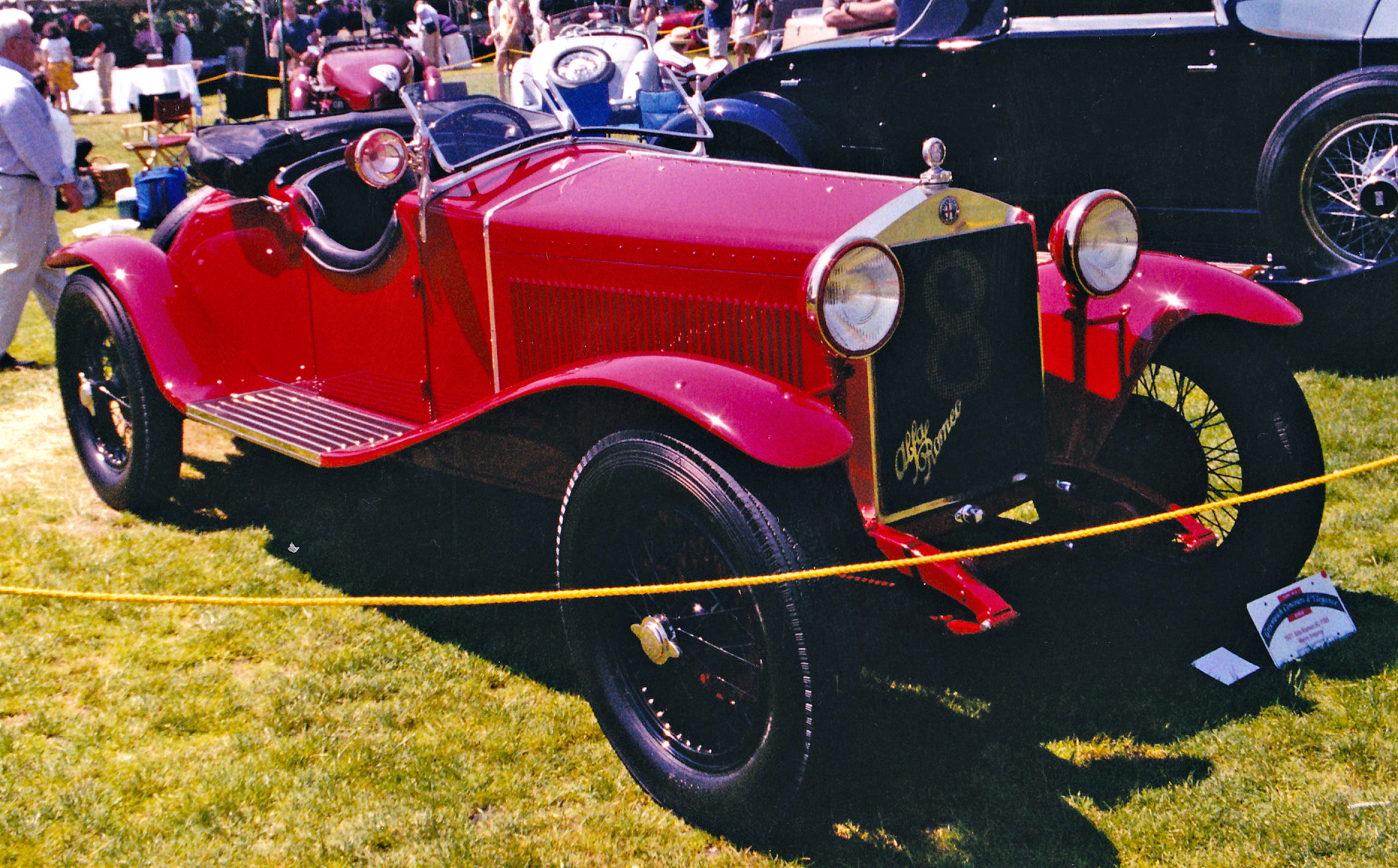 A 1927 Alfa Romeo 6C 1500 Spyder Mille Miglia at the 2002 Greenwich Concours d'Elegance.